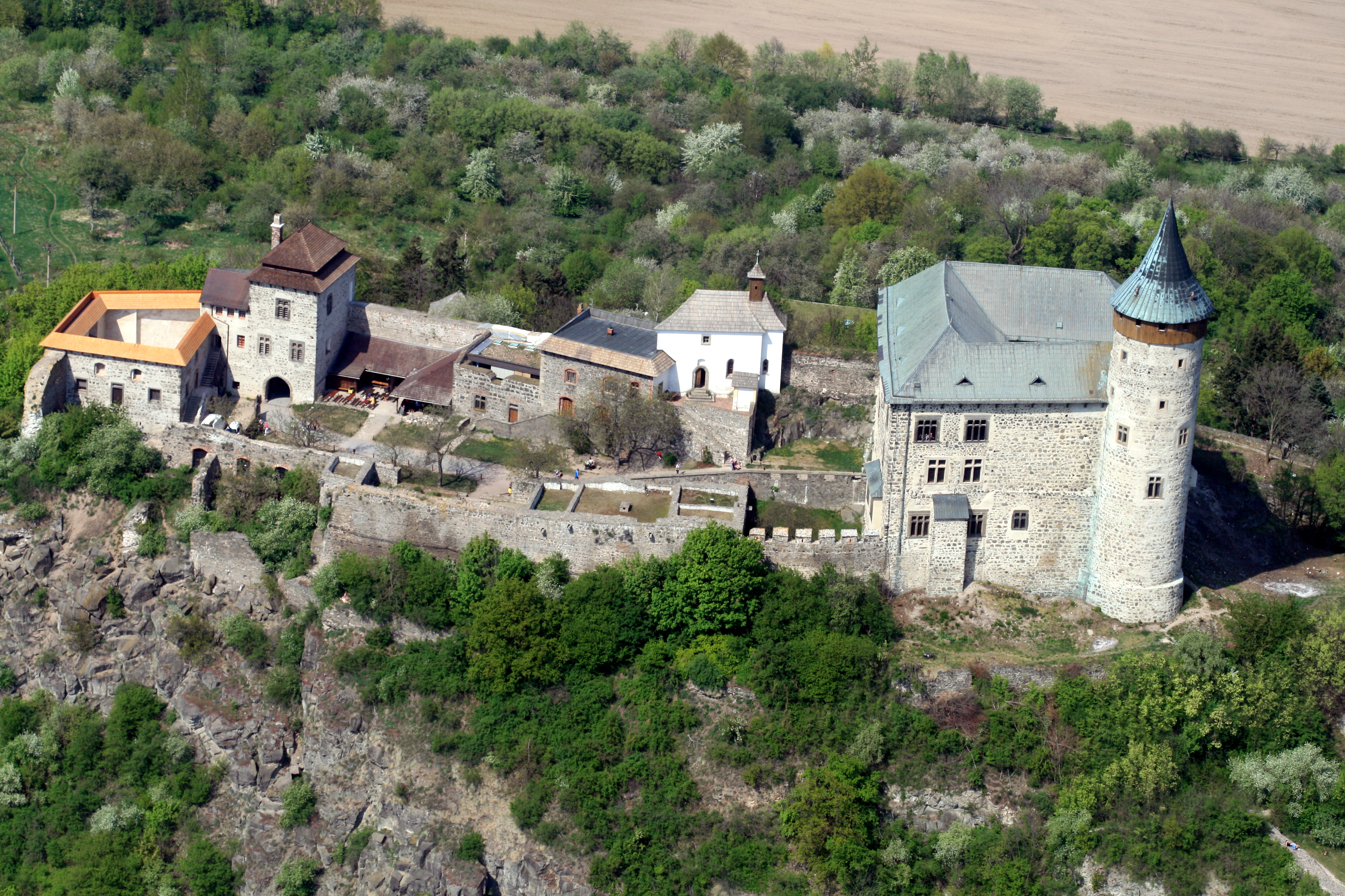 Castle Kunětice Mountain Castle on hill Kunětice Mountain from air, eastern Bohemia, Czech Republic